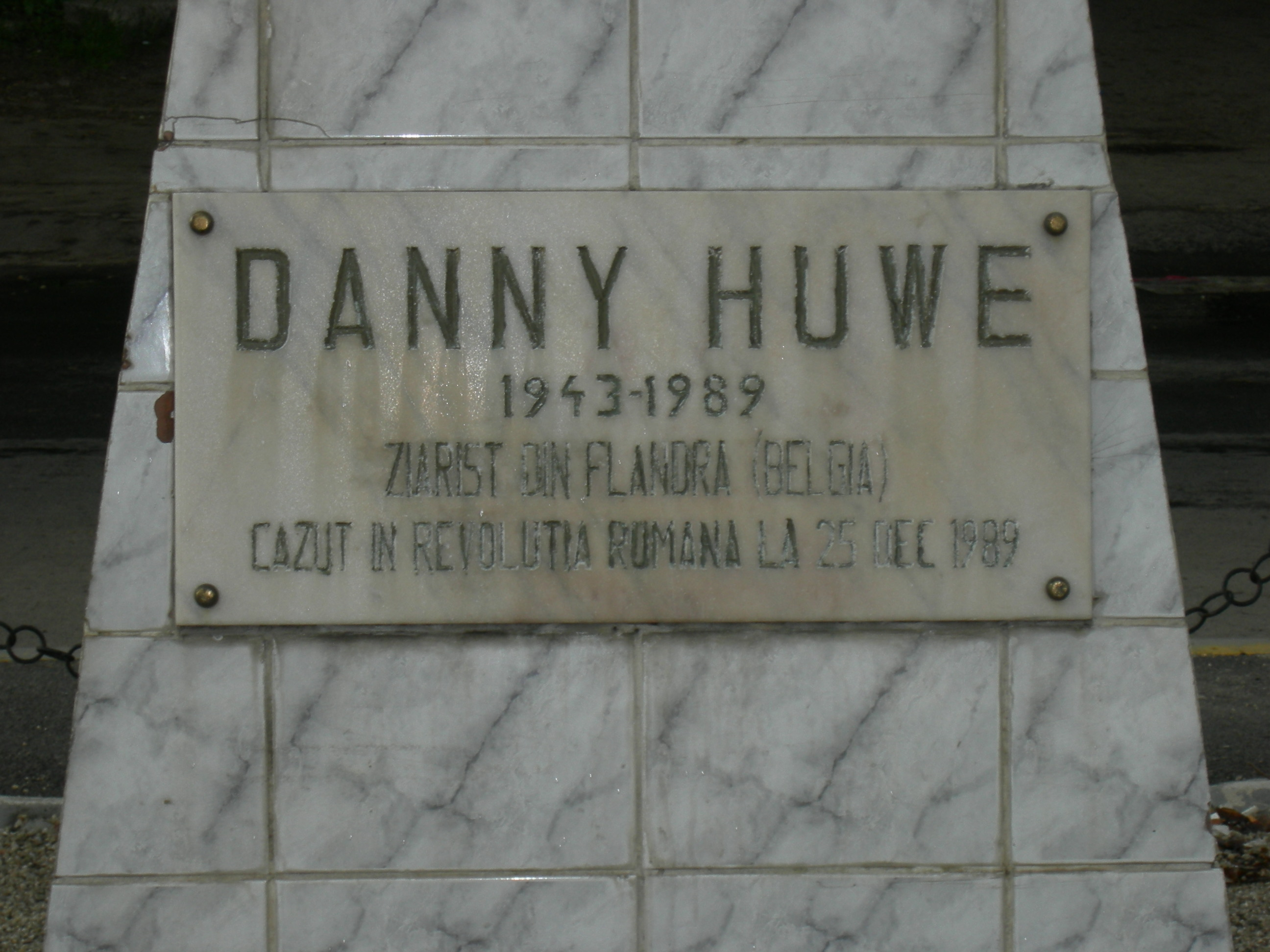 Memorial to Danny Huwe, Belgian journalist killed during the Romanian Revolution of 1989. At the Răzoare traffic circle, Drumul Taberei, Romania